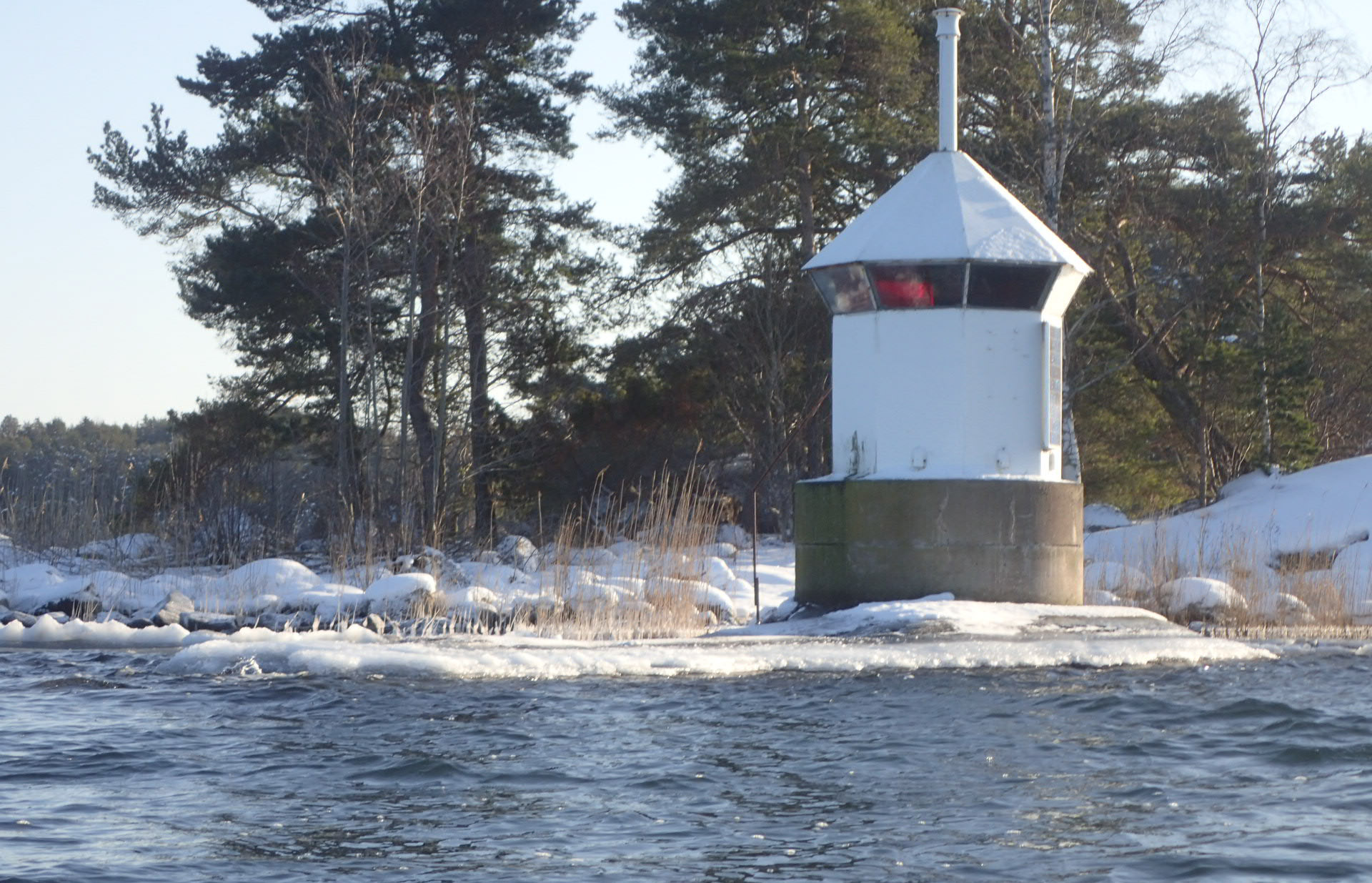 Lighthouse on Svingrundet